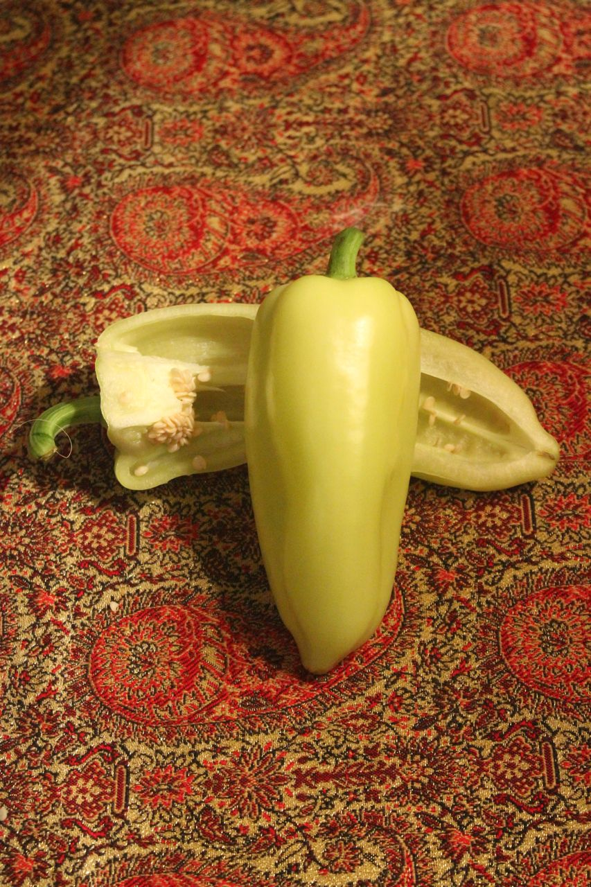 Hungarian wax pepper, whole and bisection